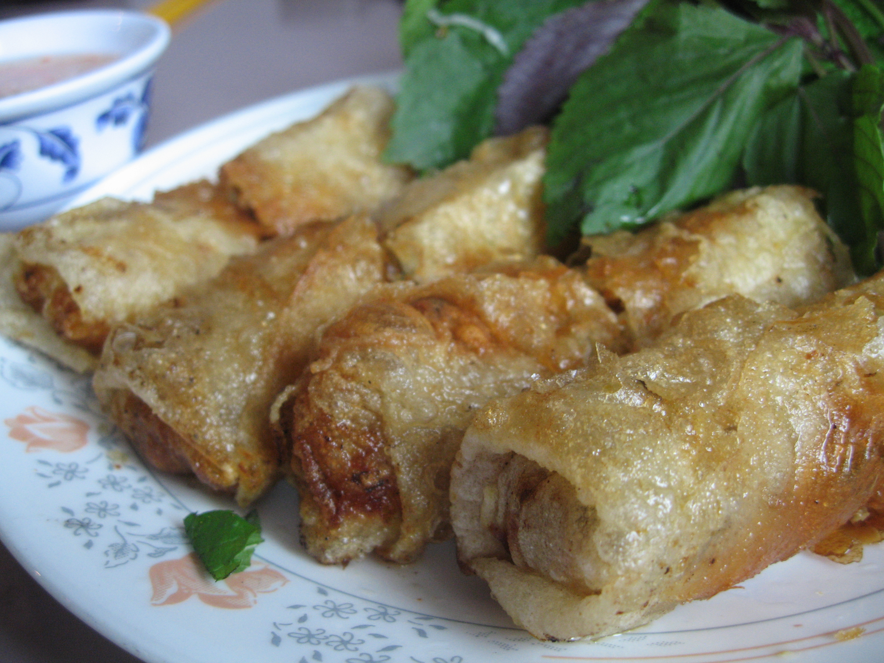 Fried spring rolls